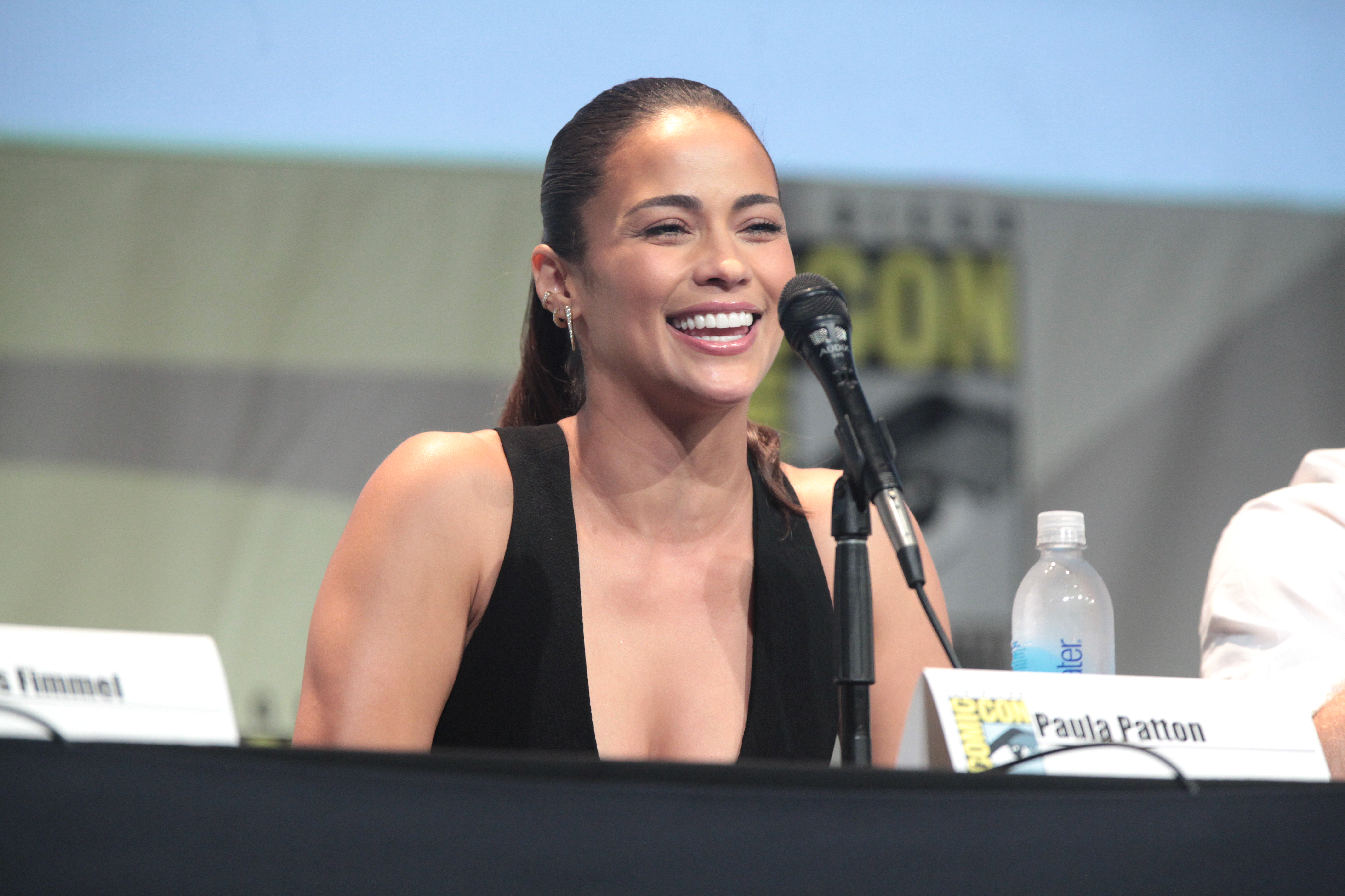 Paula Patton speaking at the 2015 San Diego Comic Con International, for "Warcraft", at the San Diego Convention Center in San Diego, California.